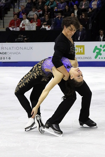 Tessa Virtue and Scott Moir at the 2016 Skate Canada International